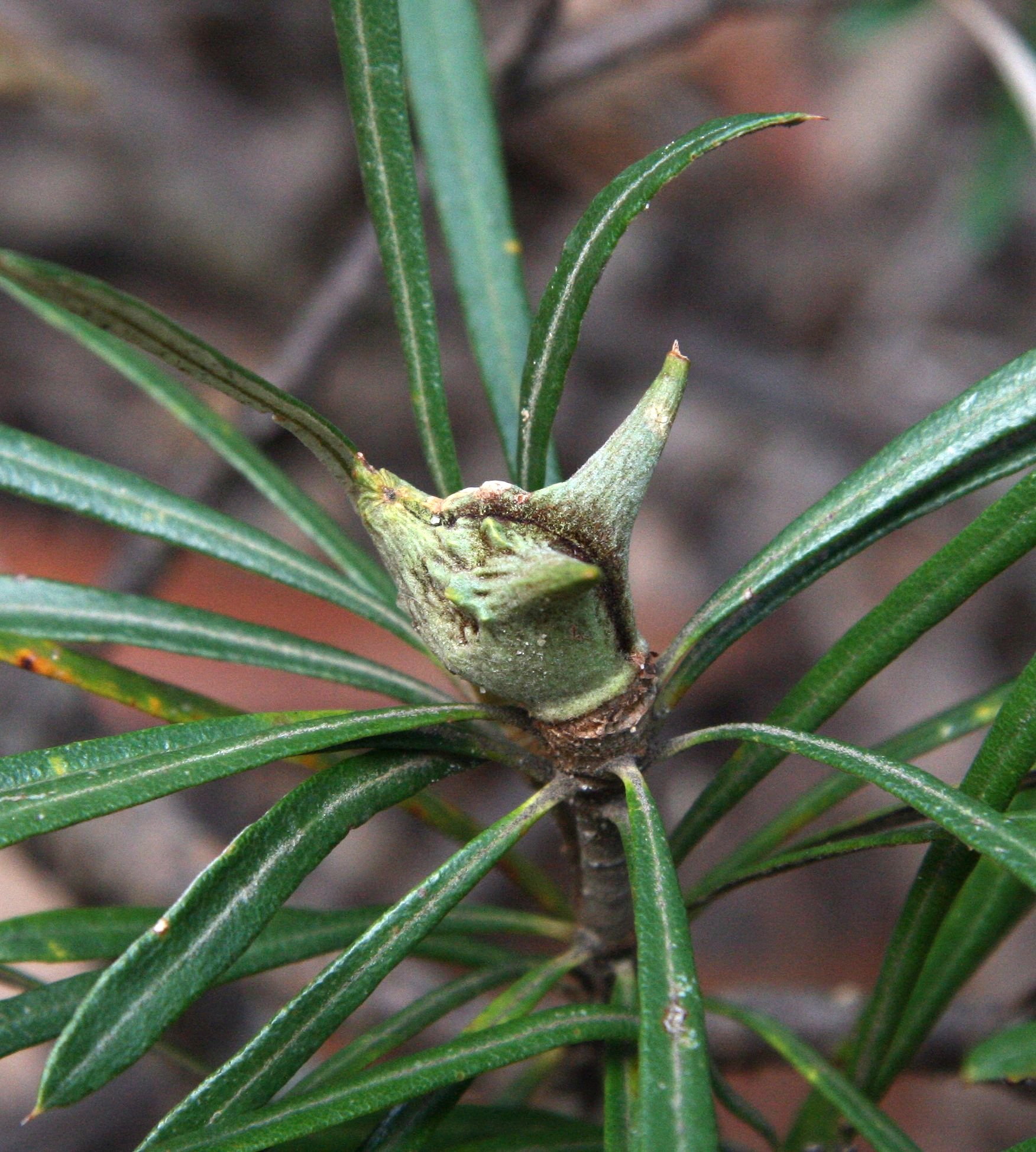 Developing green seed pod of Lambertia formosa (shaped like devil's head from which plant gets its common name of 'Mountain Devil' - taken near conservation hut at Wentworth Falls, NSW